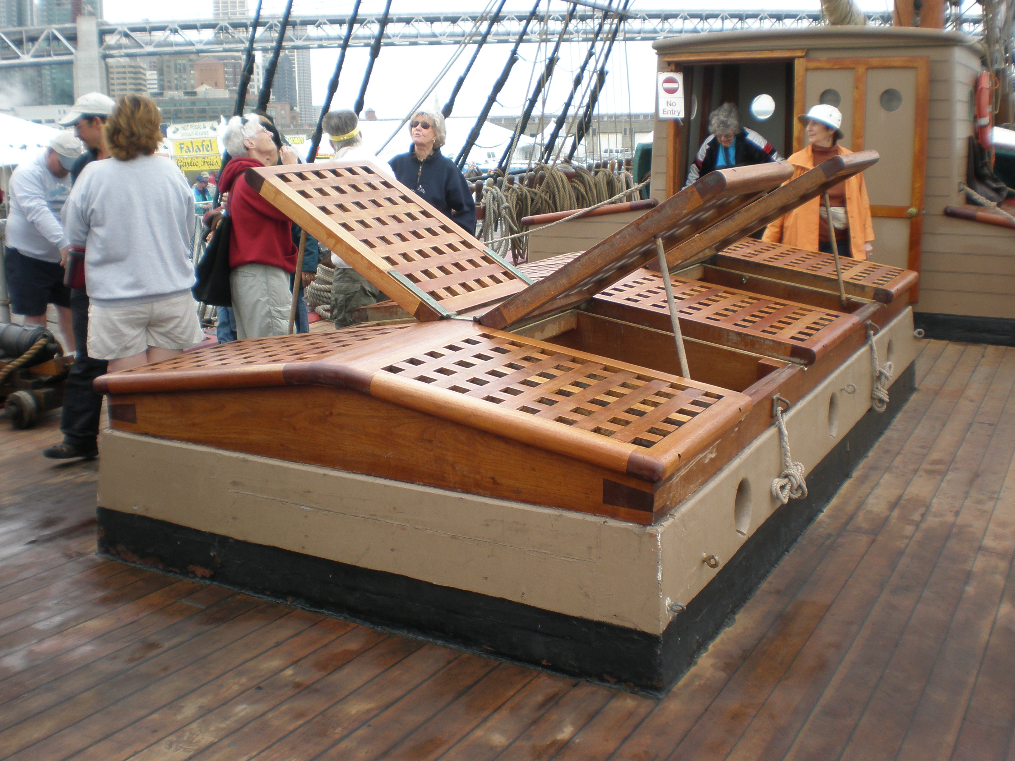 A top view of berth deck hatches on the Bounty II, seen while the ship was docked during the Festival of Sail San Francisco 2008.